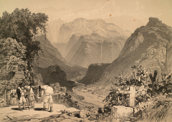 Madeira, Canyon of Sao Jorge, lithograph.